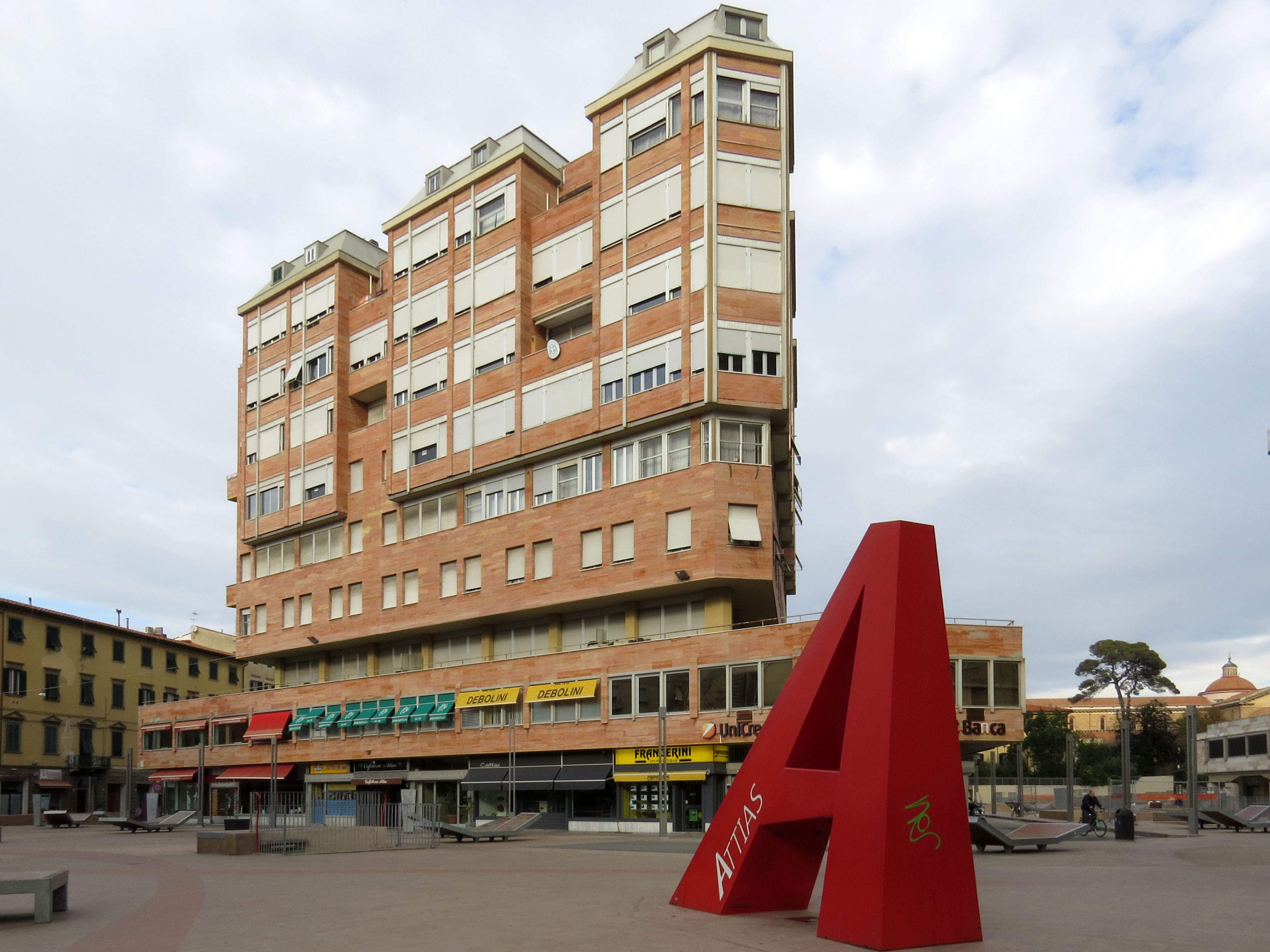 Piazza Attias, Livorno